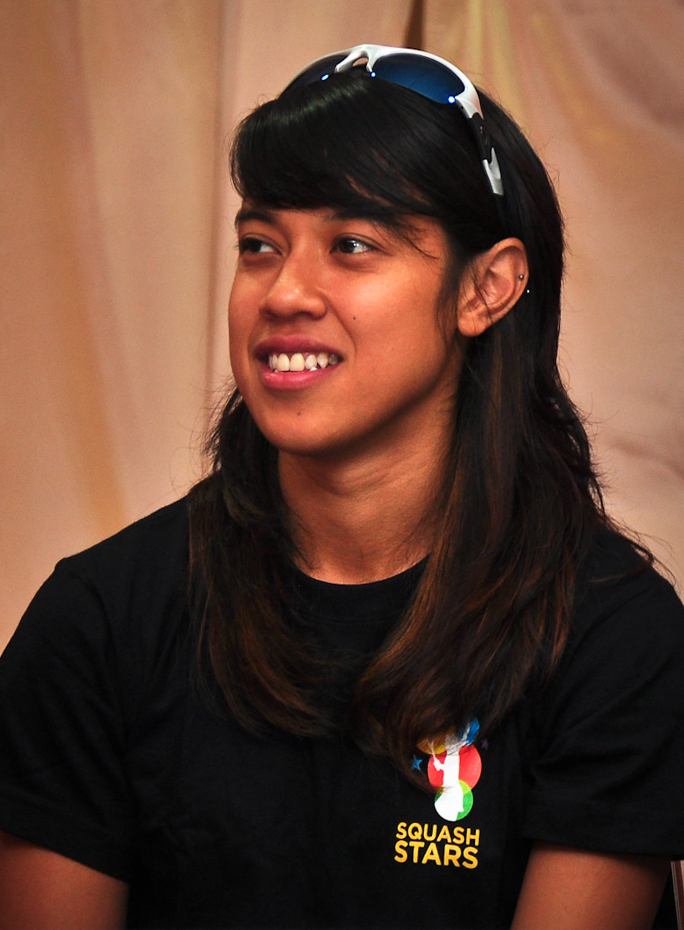 Nicol David during the Squash Stars Meet the Stars session.